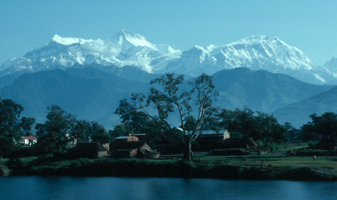 From left to the right Annapurna IV (7,525 m.), Annapurna II (7,937 m.) and Lamjung Himal (6,983 m) (the title of the image should be changed).